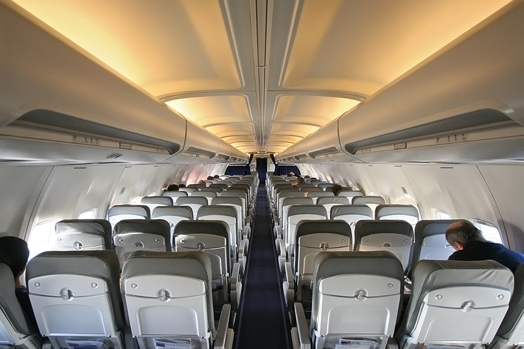 New Lufthansa cabin look. Note the new seat design, coat hooks and a new blue moveable divider curtain :) I like it, seats are very comfortable although they look thin (from the side). My first experience with Lufthansa was great ;) Nice and friendly cabin crew!